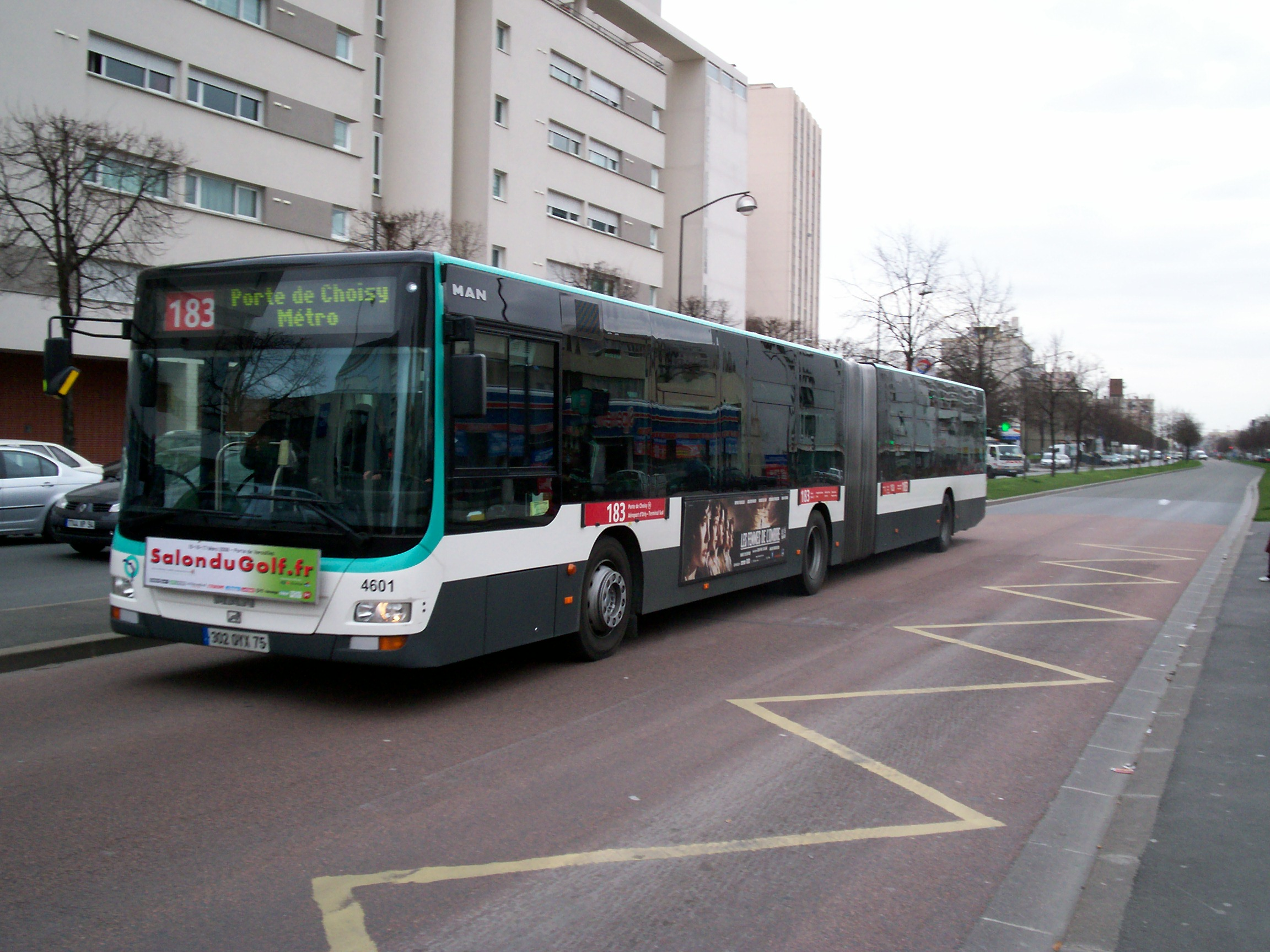 MAN NG 313 Lion's City G bus (#4601) in Paris, France. Built 2007, RATP Paris operator.